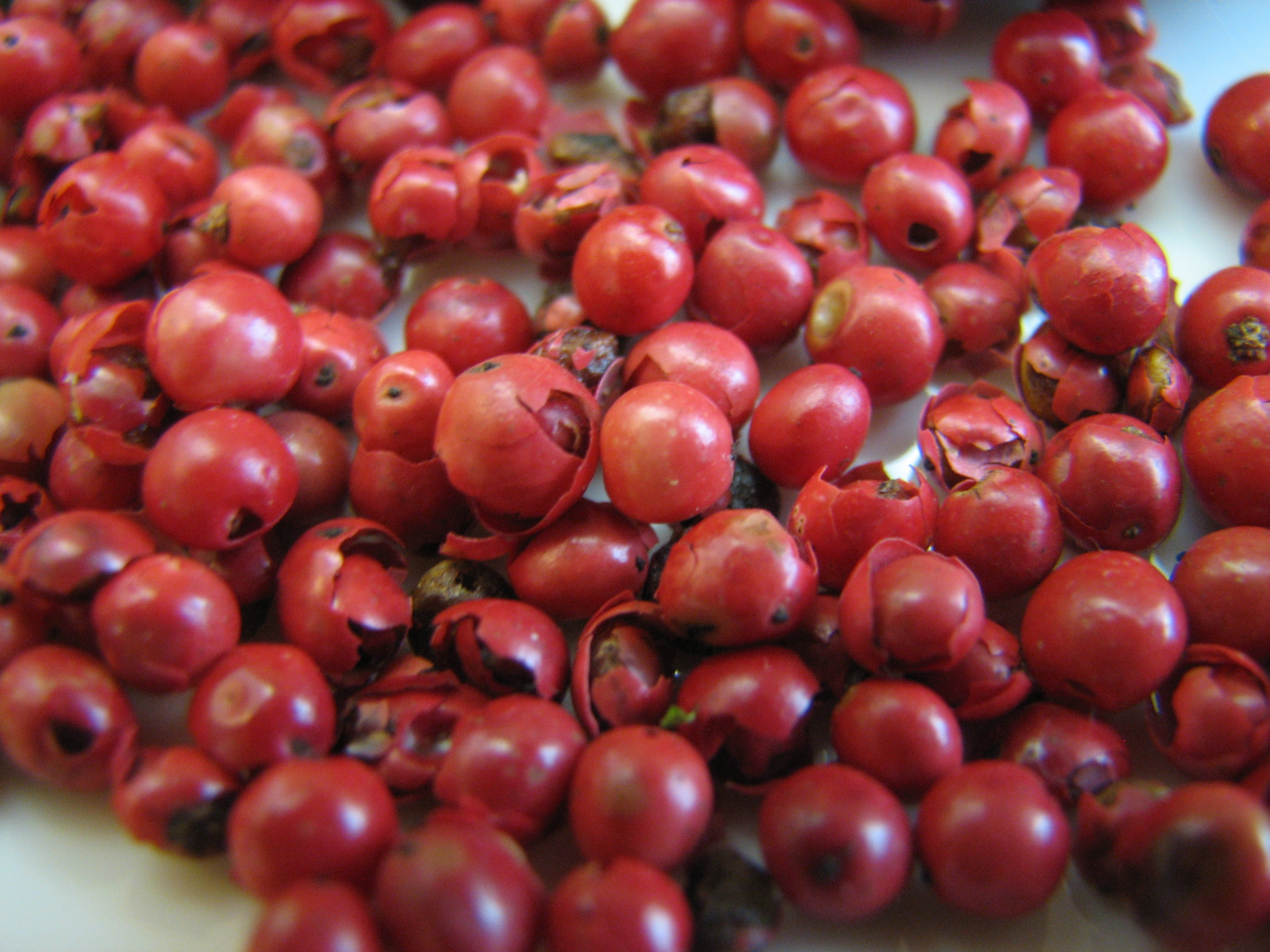 Pink Peppercorns (Schinus terebinthifolius), ready for culinary use. Those ones come from Madagascar, where Schinus terebinthifolius, a South-American tree, has been introduced as a culture.